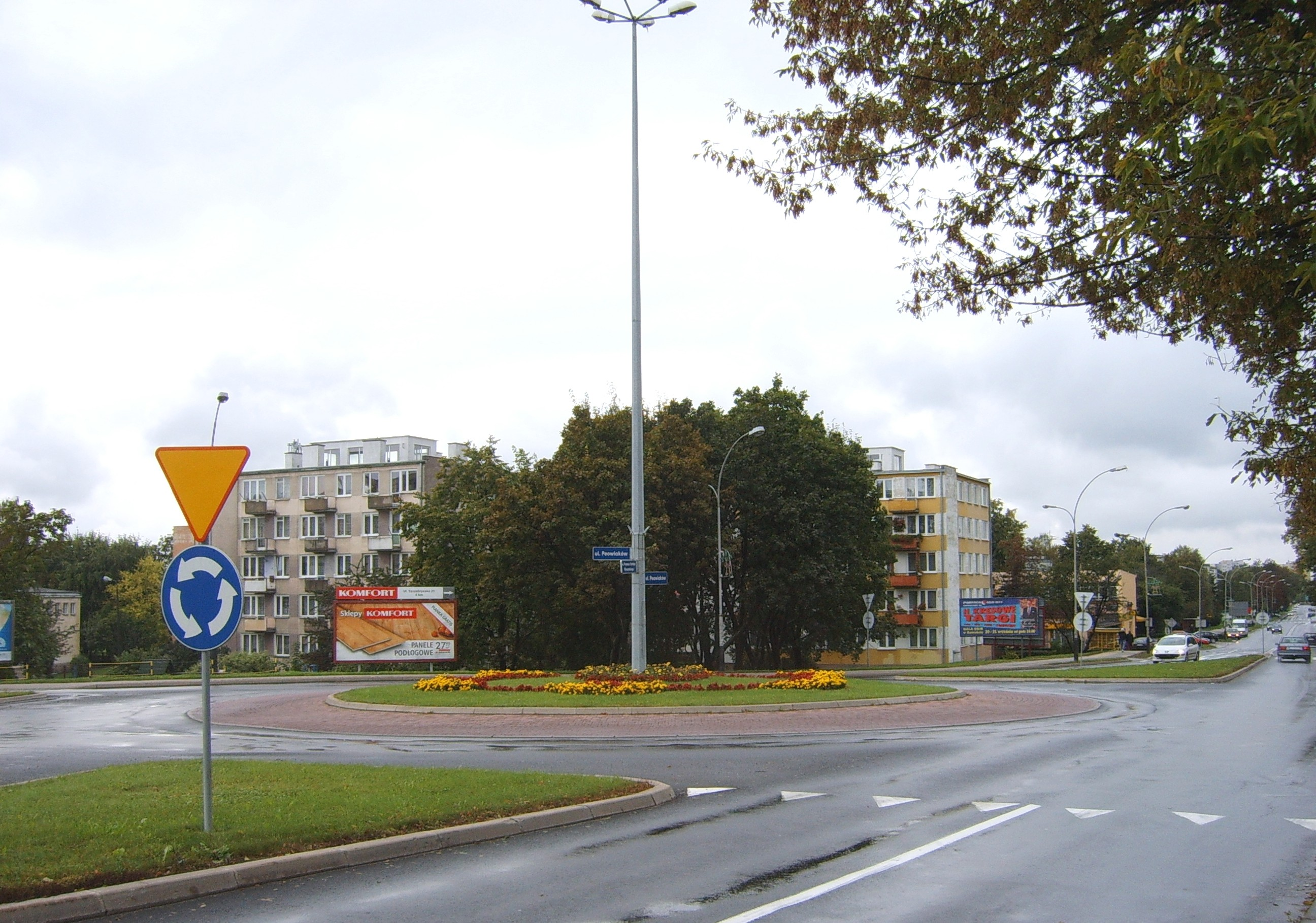 Council of Europe Roundabout in Zamość, Poland